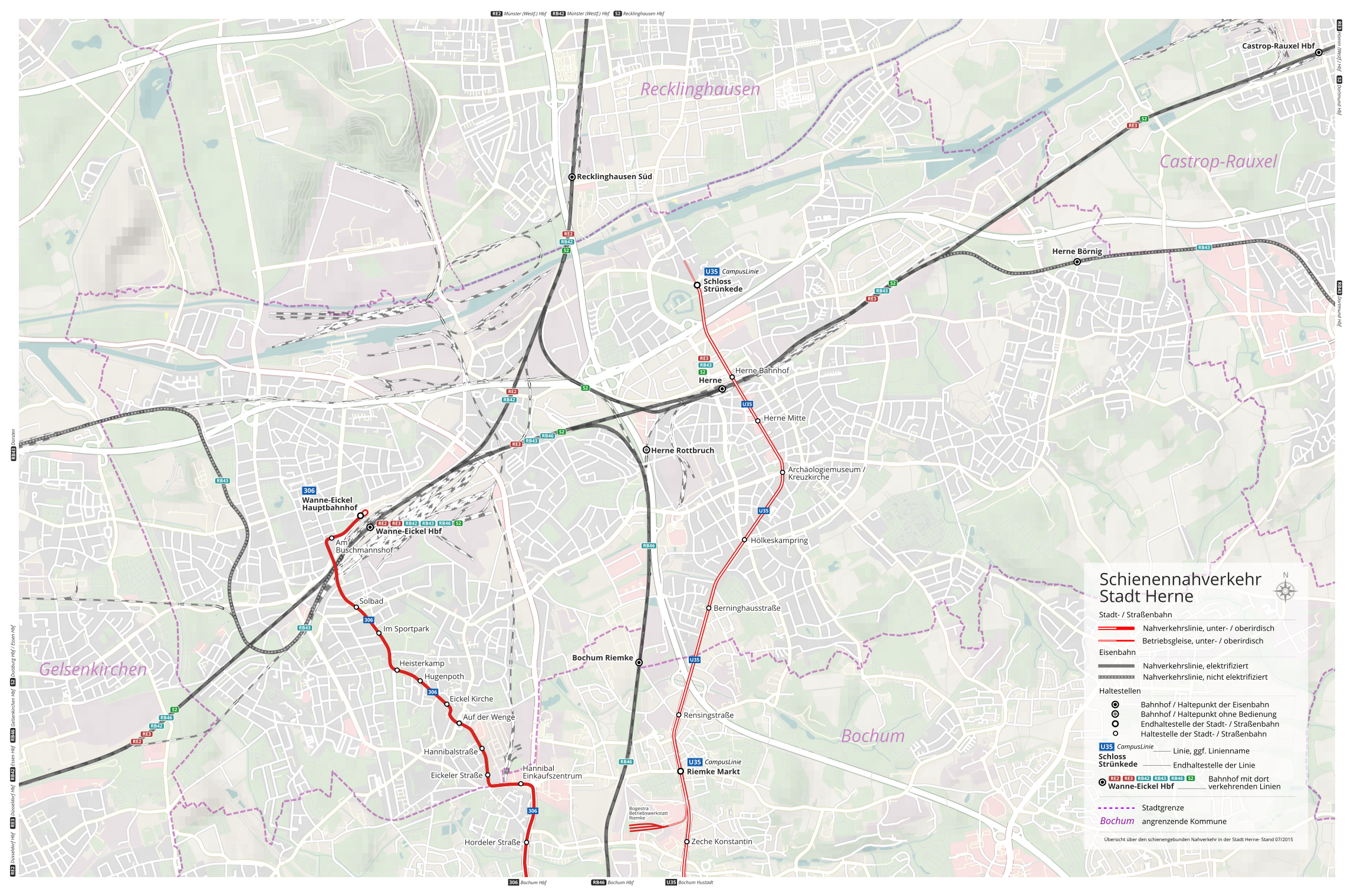 schienengebundener Personennahverkehr in Herne, Deutschland Karte des schienengebundenen Personennahverkehrs in Herne This map of Herne, Germany was created from OpenStreetMap project data, collected by the community. This map may be incomplete, and may contain errors. Don't rely solely on it for navigation.